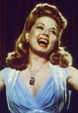 Cropped screenshot of Frances Langford from the film This Is the Army.